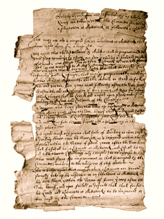 Page 1 of the foundation articles of the Mattatuck plantation (Waterbury, Conn., USA)